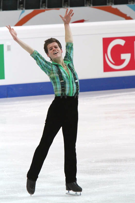 Moris Pfeifhofer at the 2011 European Figure Skating Championships.